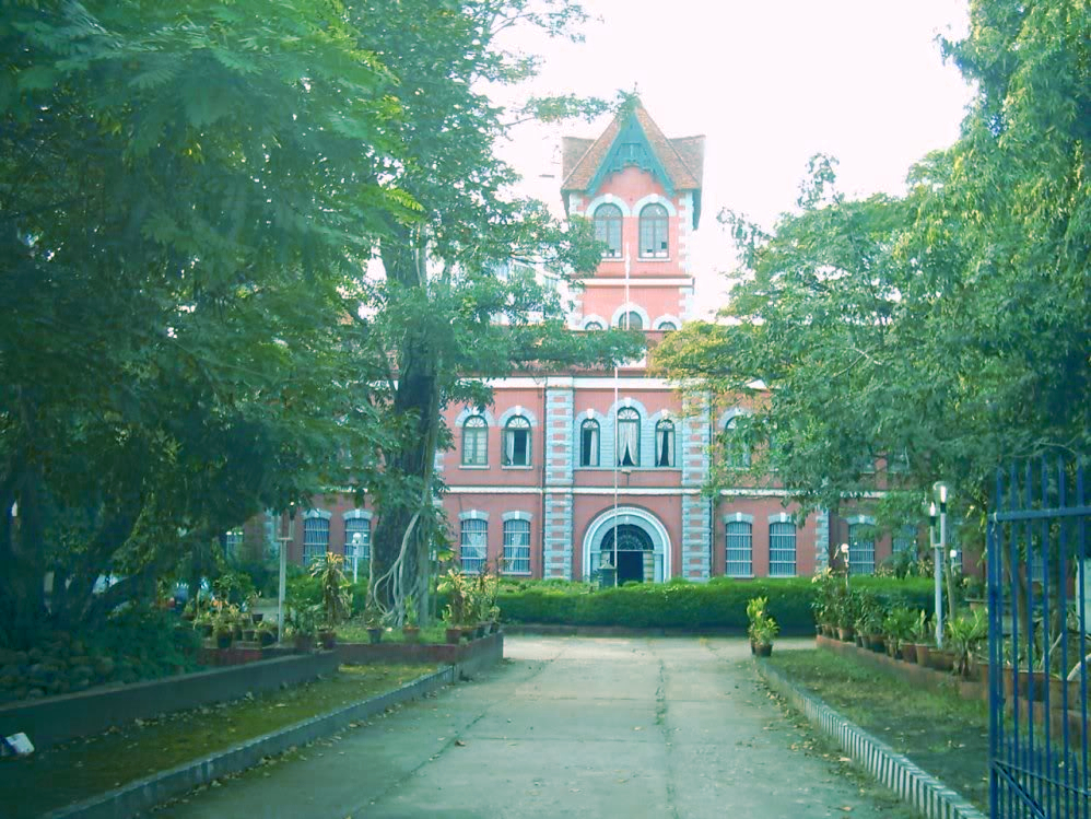 Office of Post Master General,thruvanthapuram